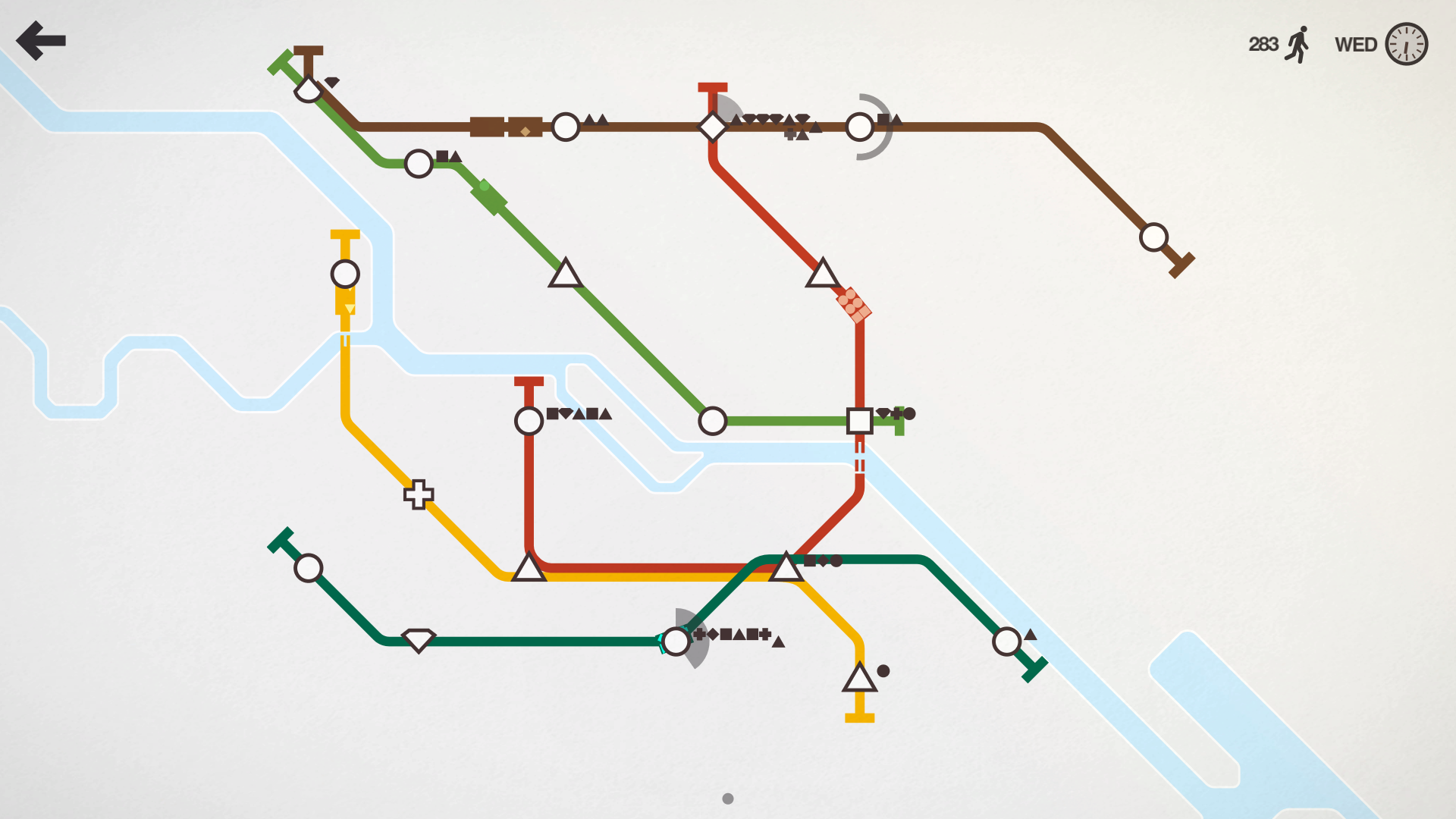 Screenshot from Mini Metro